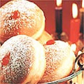 Sufganiyot with jelly